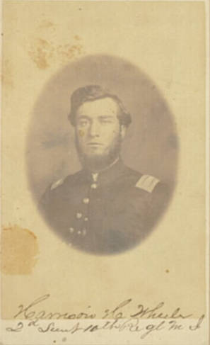 Portrait of Harrison H. Wheeler 1861-1865. Bay City. Enlisted in company C Tenth Infantry as First Sergeant Nov. 1 1861 at Farmer's Creek for 3 years age 22. Discharged on account of physical disability Feb. 21 1865. Died July 28 1896.